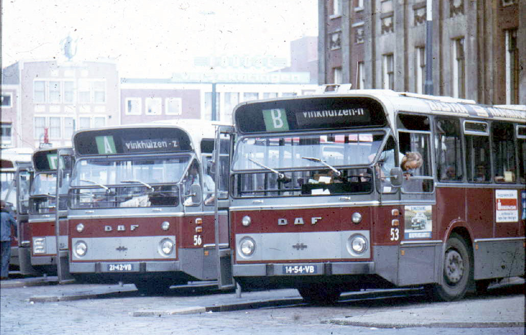 Groningen Transport.